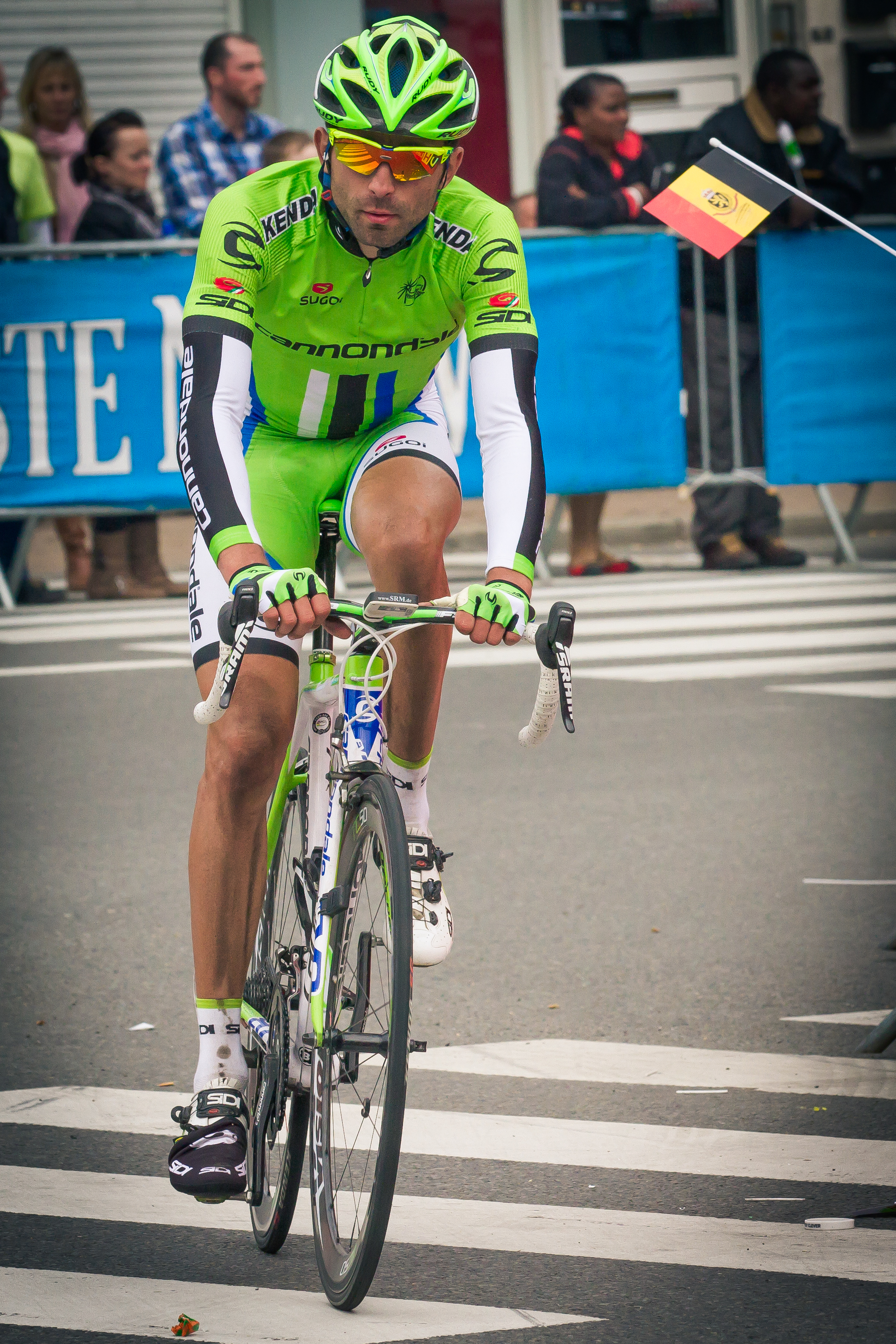 Moreno Moser of Cannondale Pro Cycling (CAN). Liege-Bastogne-Liege race, 2013